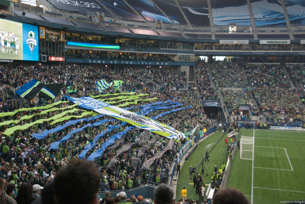 Supporters of the Seattle Sounders unveil a tifo during a March 2009 home game.